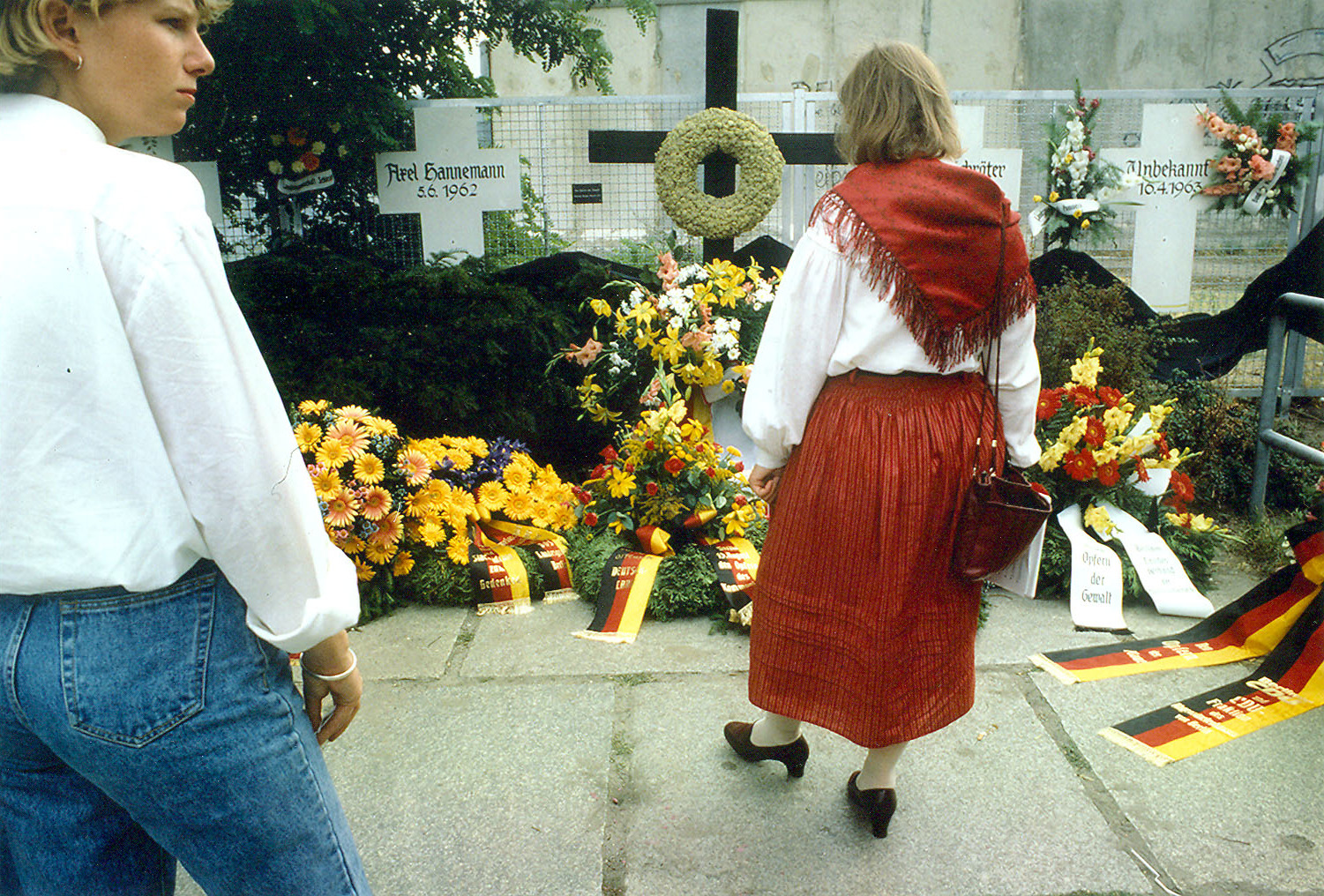 25th anniversary of the Berlin Wall. August 1986 photograph by Nancy Wong.